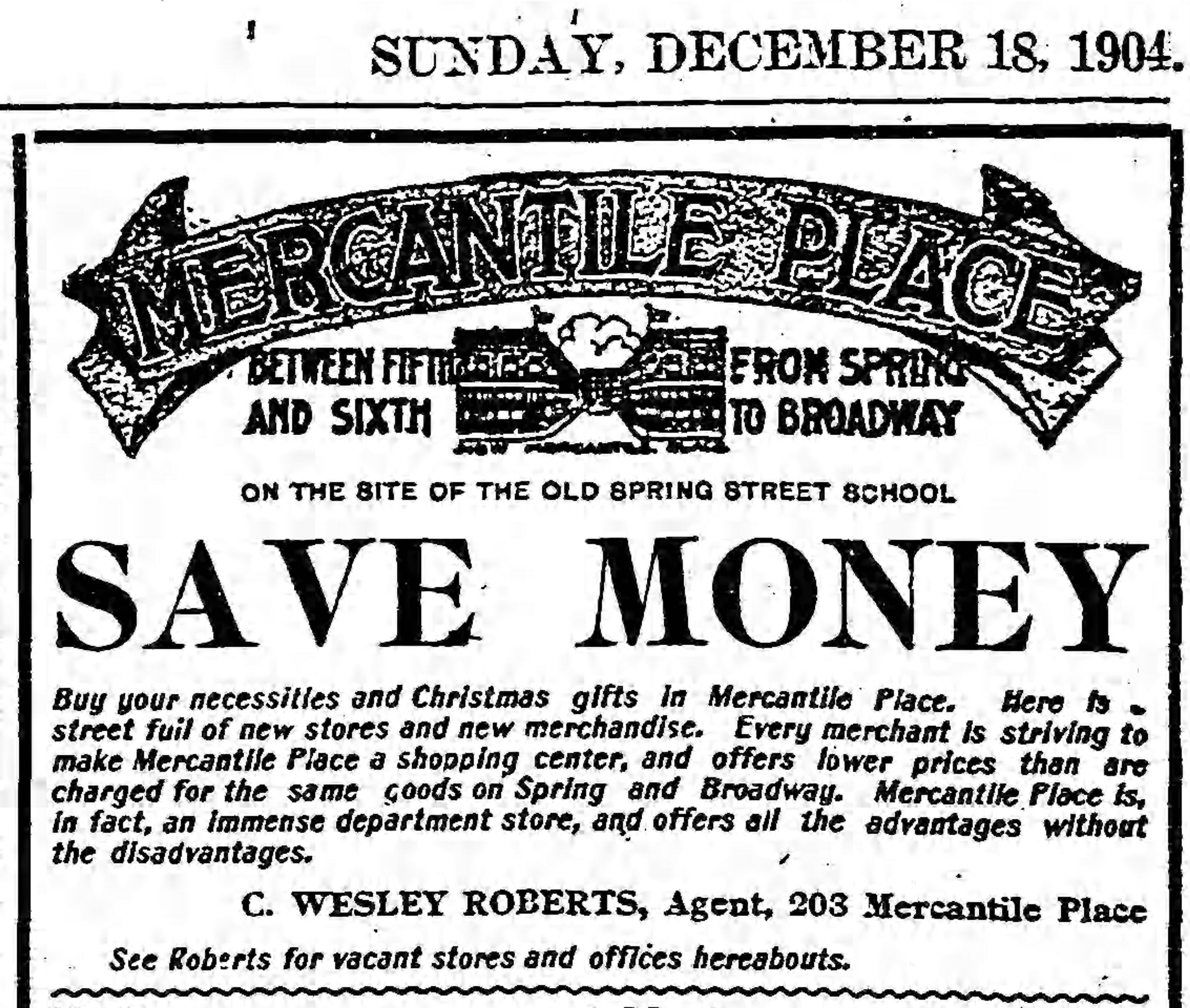 Portion of an advertisement in the Los Angeles Times issue of December 18, 1904, for Mercantile Place, the precursor of the Broadway Arcade in that city.